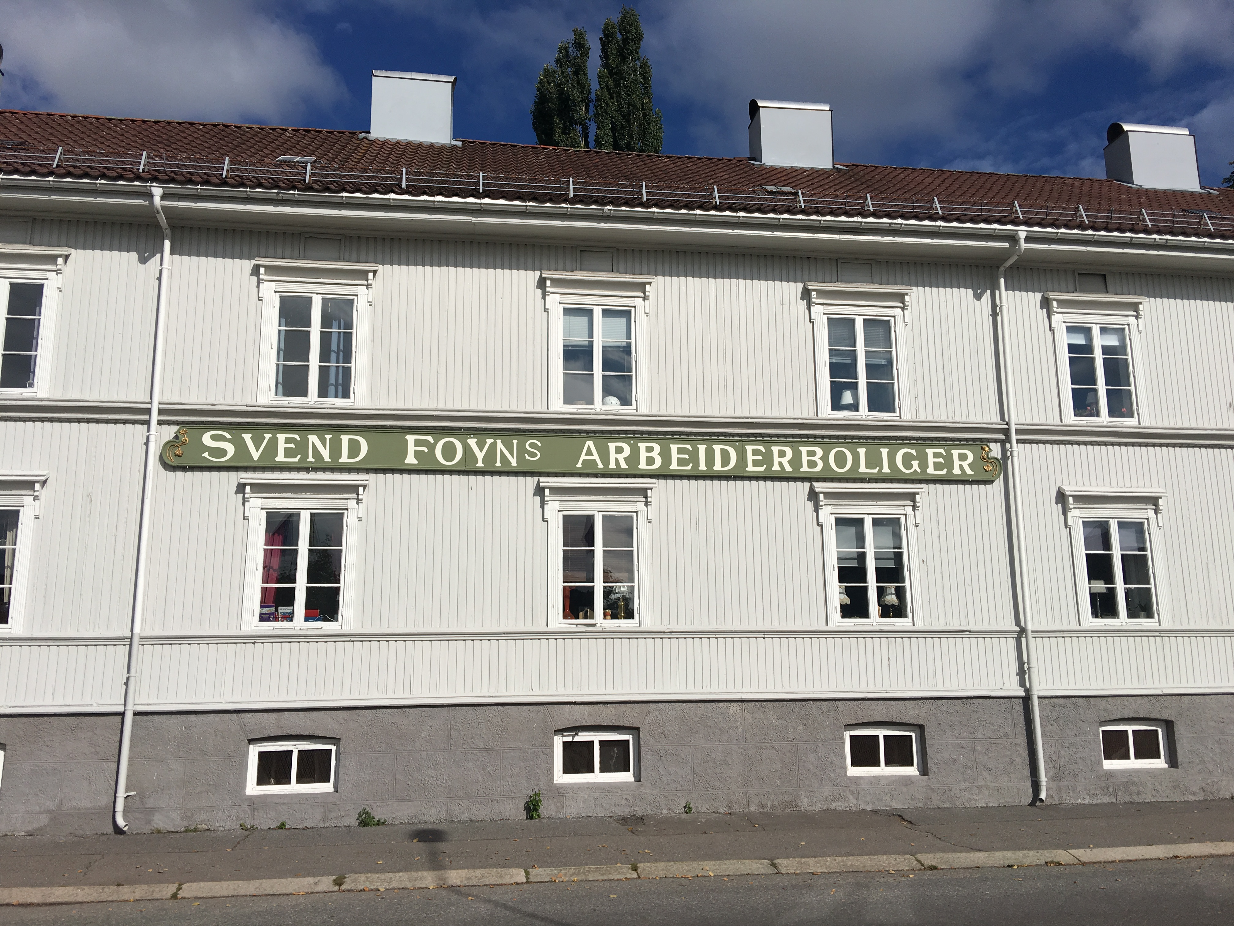 "Svend Foyns arbeiderboliger" worker's house in Tønsberg, Norway. Built 1857–65.